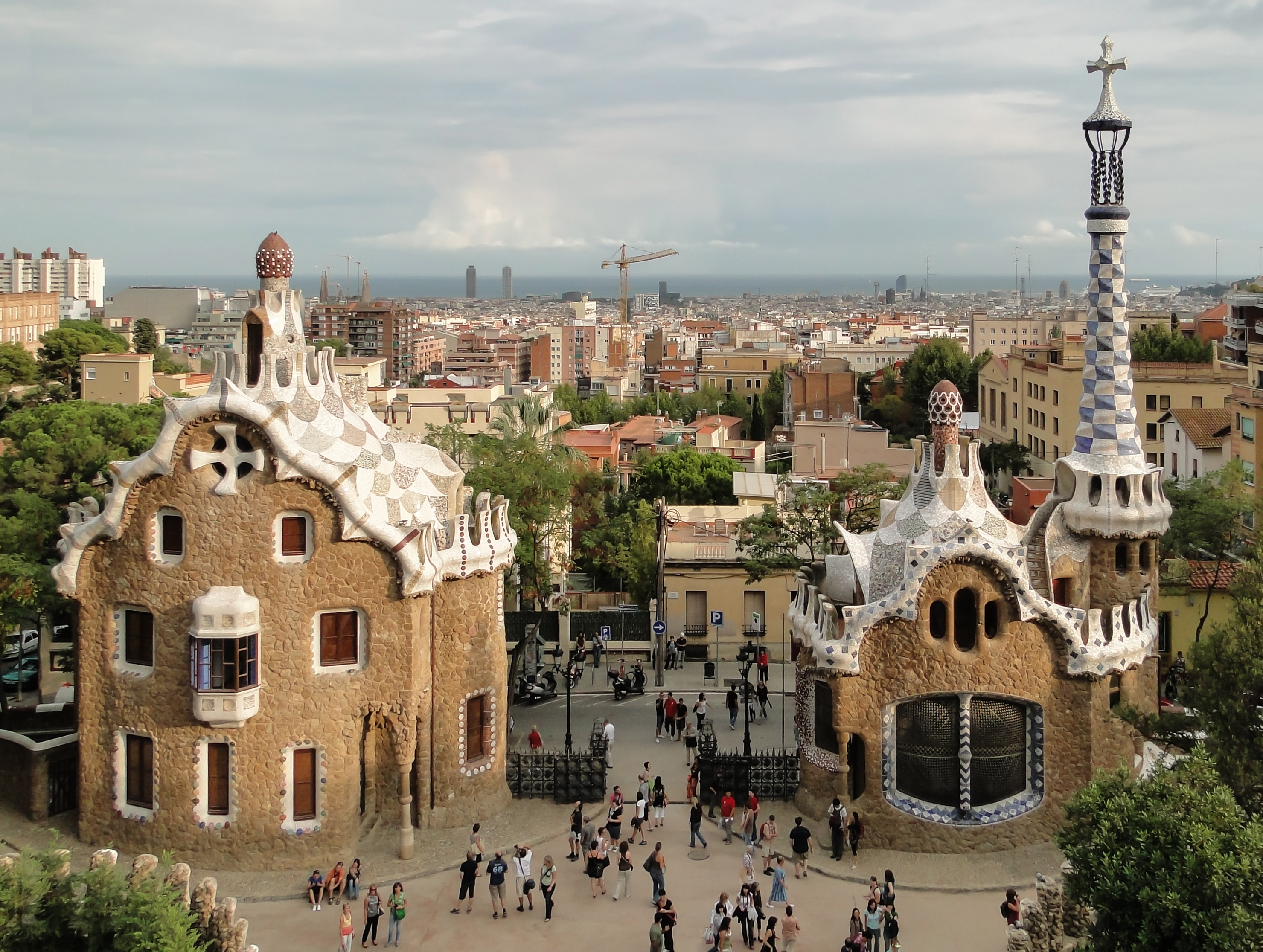 Houses in Park Güell designed by Antoni Gaudi, Barcelona, Spain